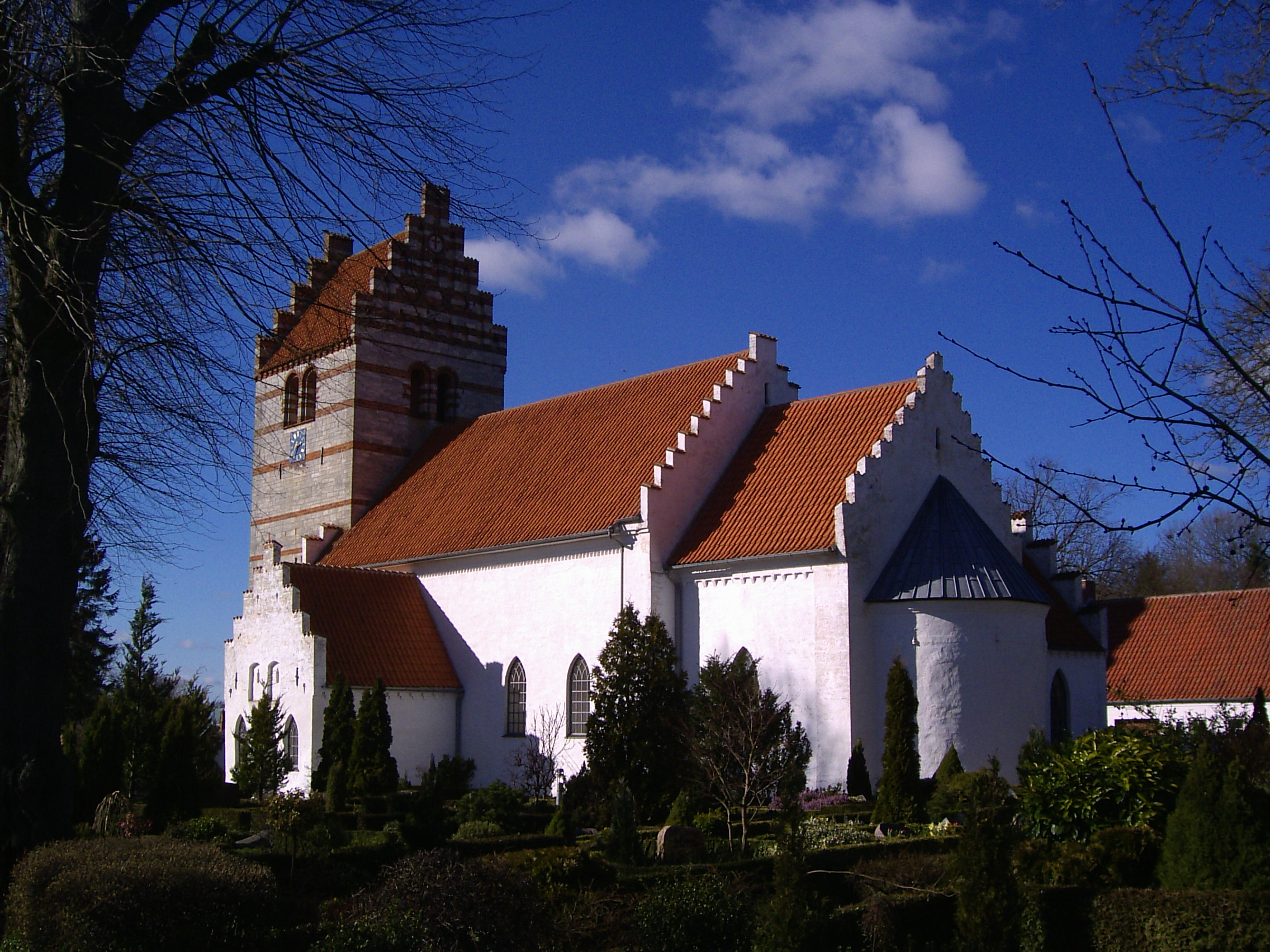 Hårlev Church, Hårlev parish, Municipality of Stevns, Region Sealand, Denmark.